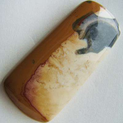 a cabochon of cryptocrystaline quartz flint from Ohio